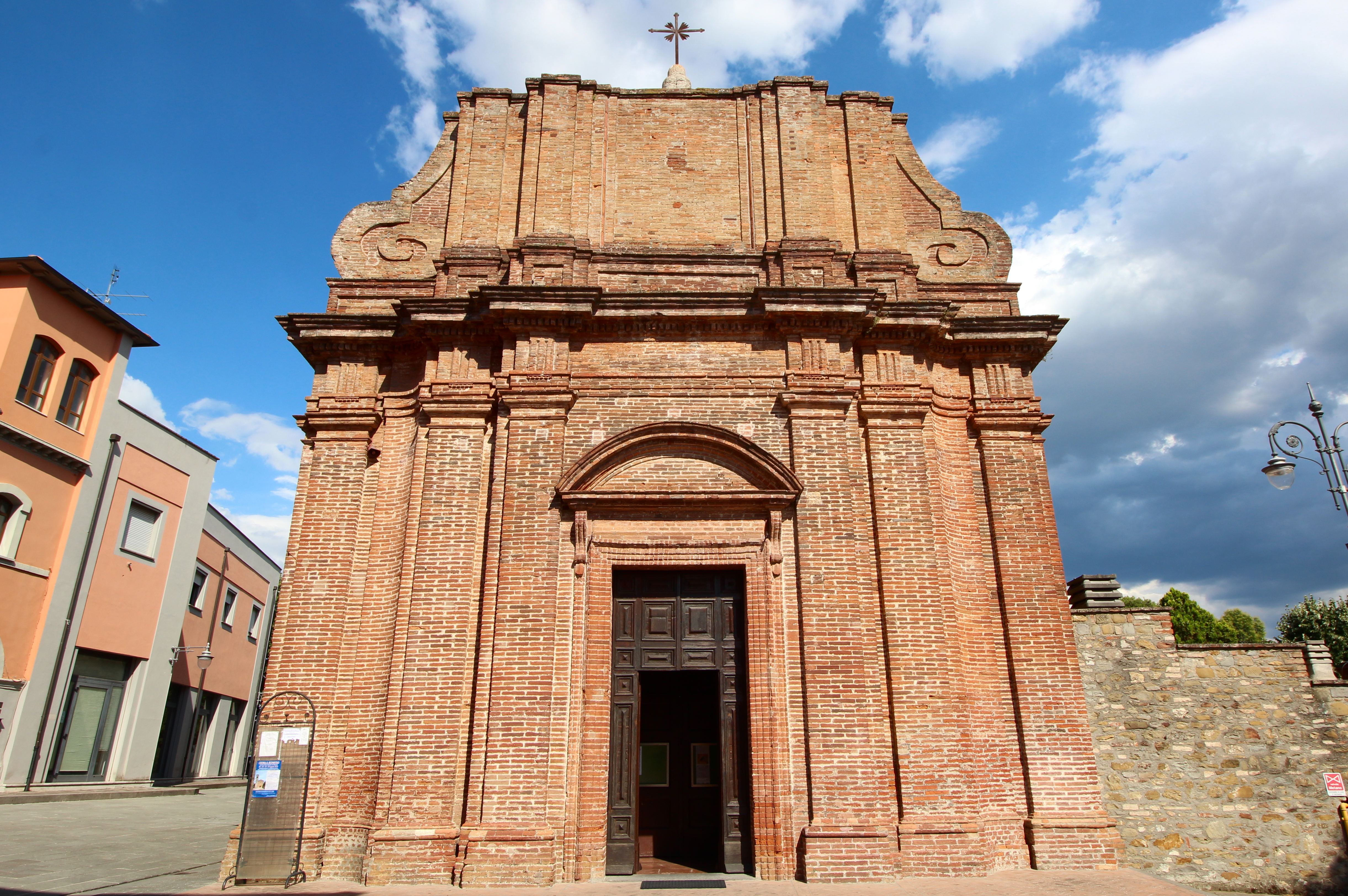 Church San Giovanni Battista, Magione, Umbria, Italy